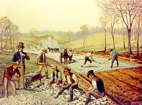 Construction of a macadam road, "Boonsborough Turnpike Road" between Hagerstown and Boonsboro, Maryland, 1823. Inspired by the work of John Loudon McAdam. (Painting by Carl Rakeman – see source link for much more information about the painting.)